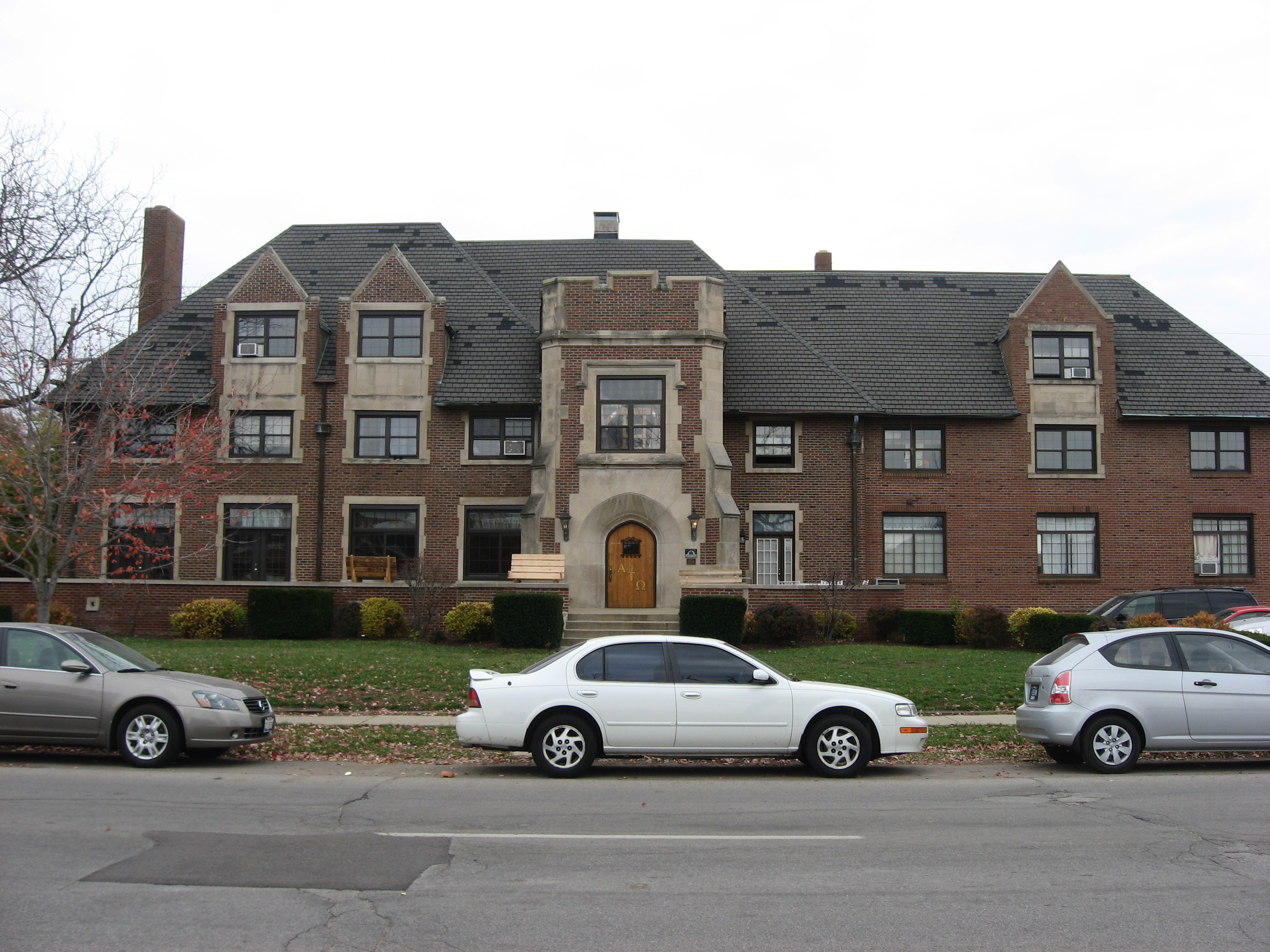 Front of the Alpha Tau Omega Fraternity House, located at 314 Russell Street in West Lafayette, Indiana, United States. Built in 1920 as the fraternity house for a chapter of Alpha Tau Omega, it is listed on the National Register of Historic Places.